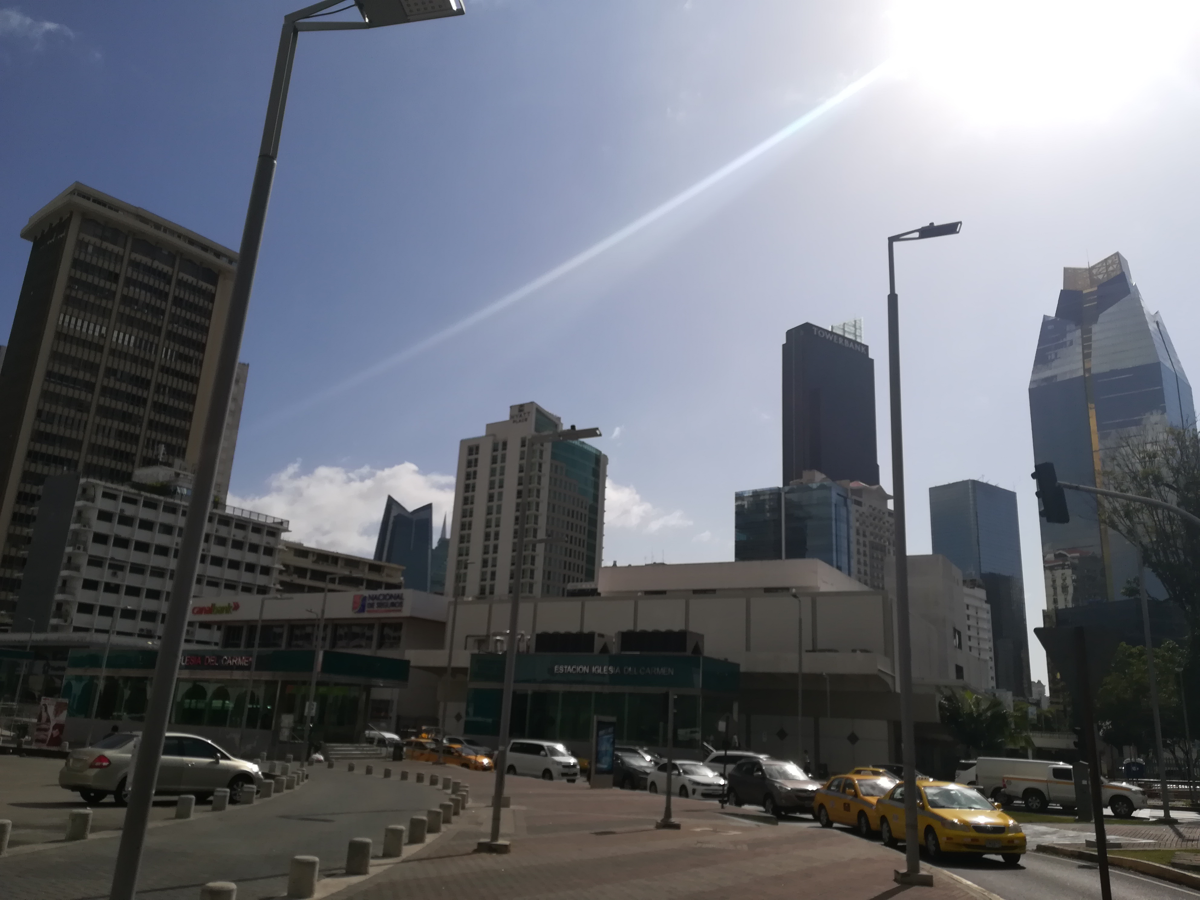 Panama city. Vía españa near iglesia del Carmen.